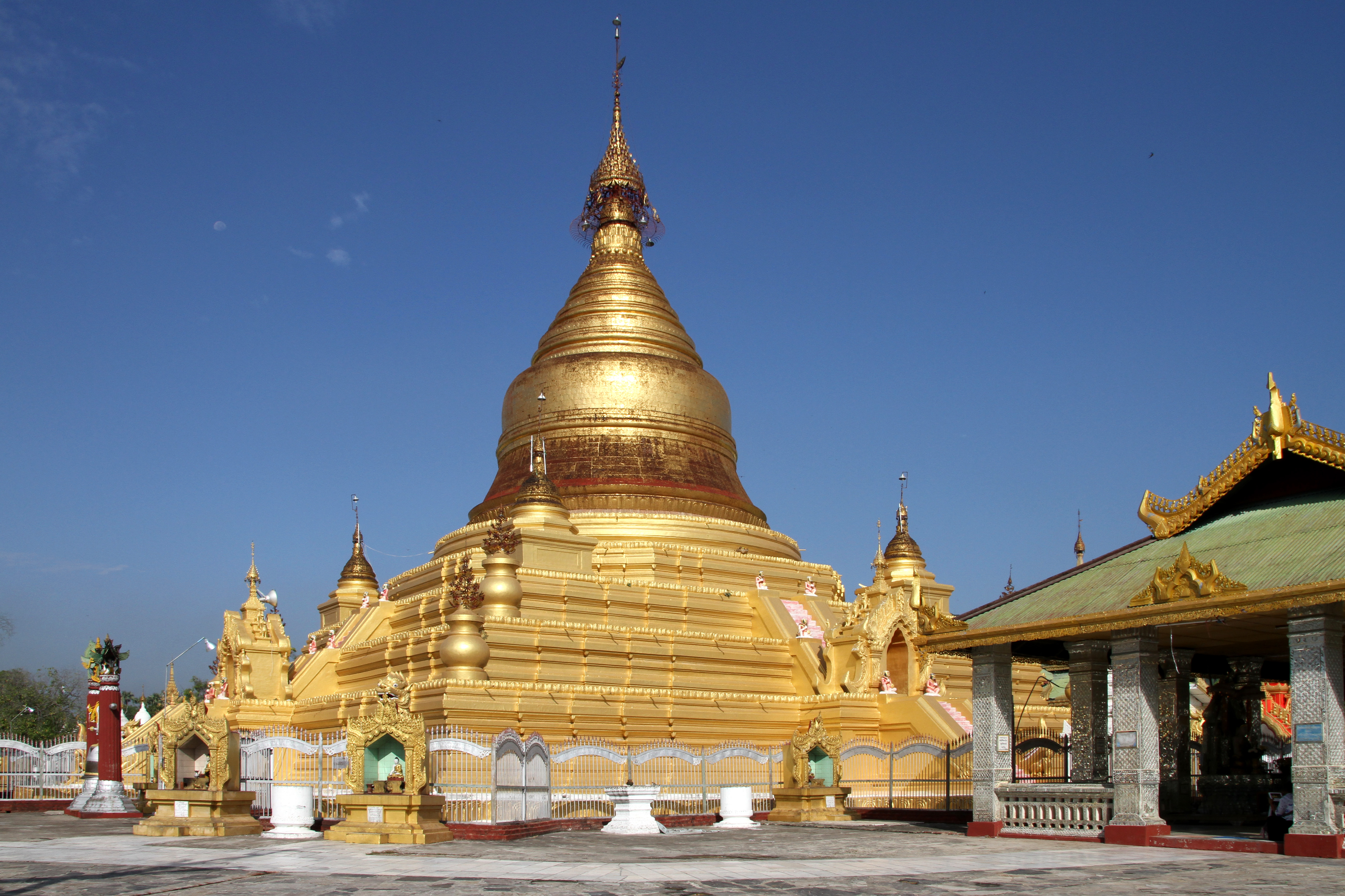 Kuthodaw Pagoda in Mandalay in Myanmar.